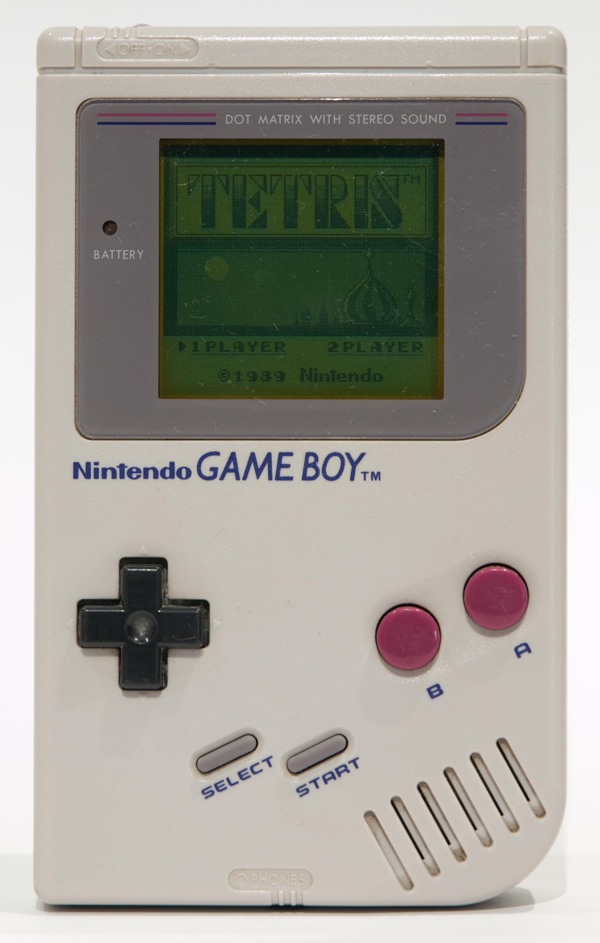 Tetris game on the first Game Boy